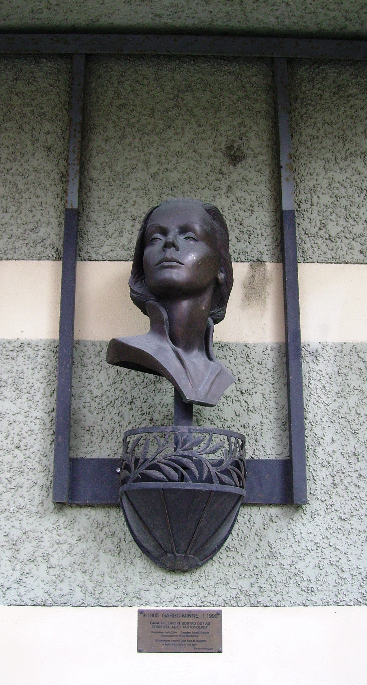 Picture of sculpture of Greta Garbo on a building in Södermalm in Stockholm.